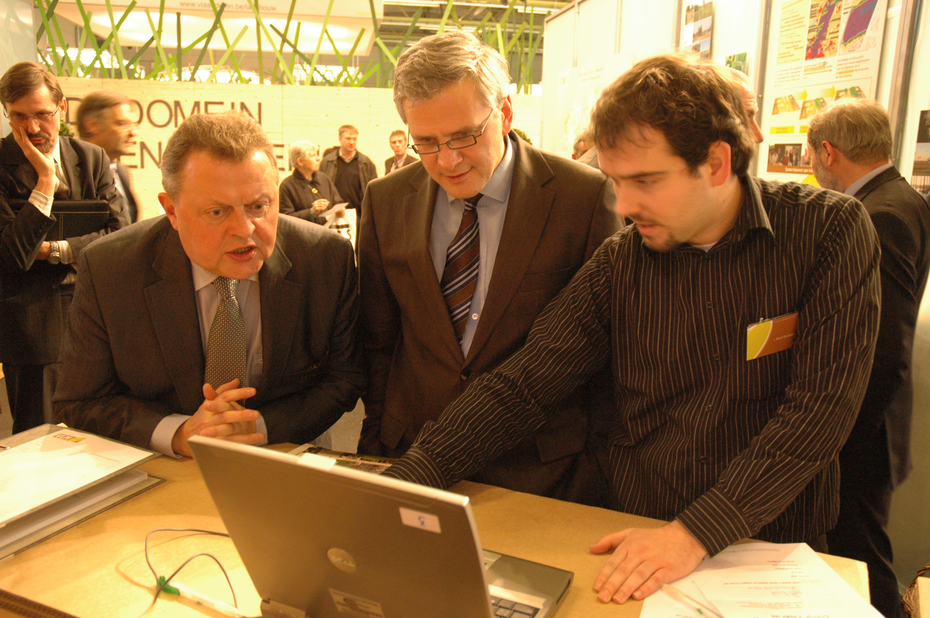 Kris Peeters former minister-president of Flanders (in the middle), next to Piet Vanthemsche (on the left)